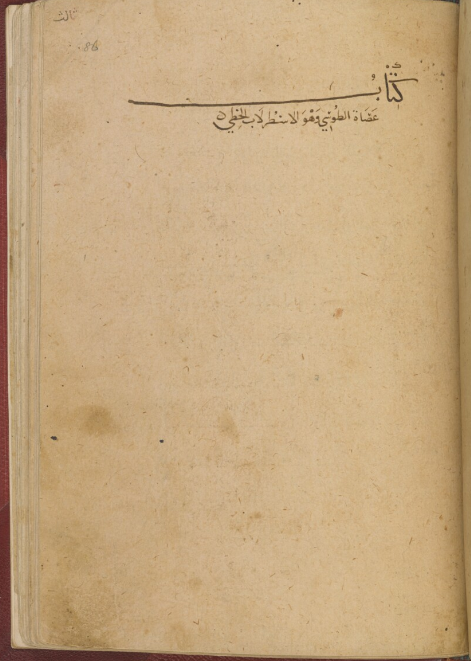 first page of an Arabic manuscript of a book about the linear astrolabe (which was invented by Sharaf al-Dīn al-Ṭūsī)